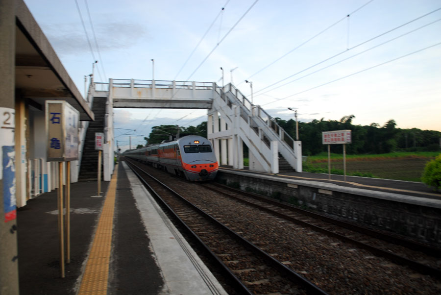 ShihGuei Station is a small local train station of Taiwan's Western main rail line. It's located within the boundary of DouNan Town, YunLin County. This photo shows an EMU1000 train (TzuChiang Express) passing through the station with full speed.